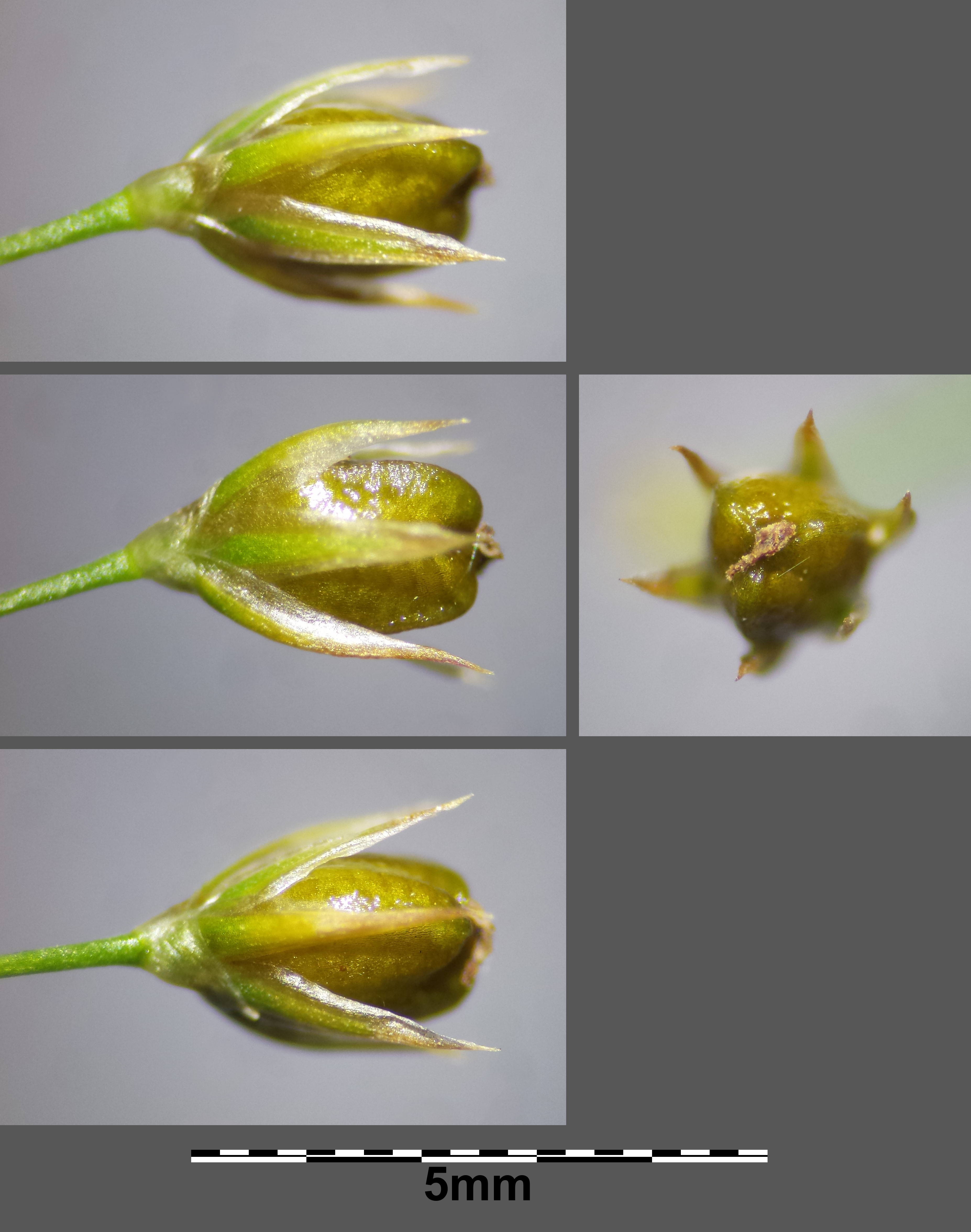 Fruit Taxonym: Juncus effusus ss Fischer et al. EfÖLS 2008 ISBN 978-3-85474-187-9 Location: Neue Donau, district Korneuburg, Lower Austria - ca. 160 m a.s.l. Habitat: shore